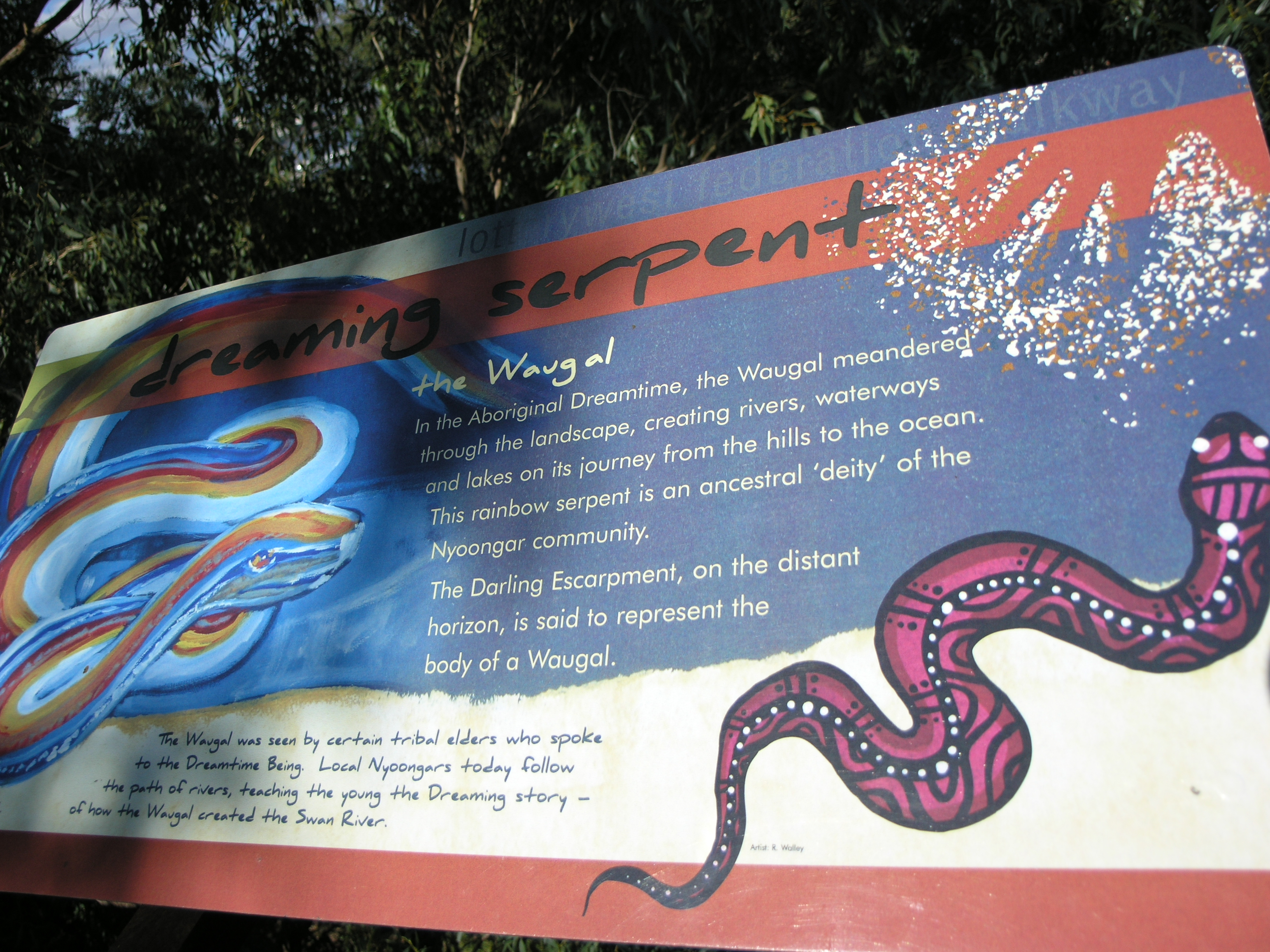 a sign in Kings Park, Perth showing the Wagyl, a snakelike being from the Aboriginal Dreamtime